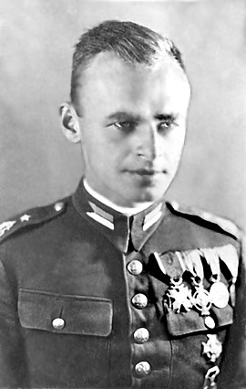 Witold Pilecki, Polish hero of Home Army